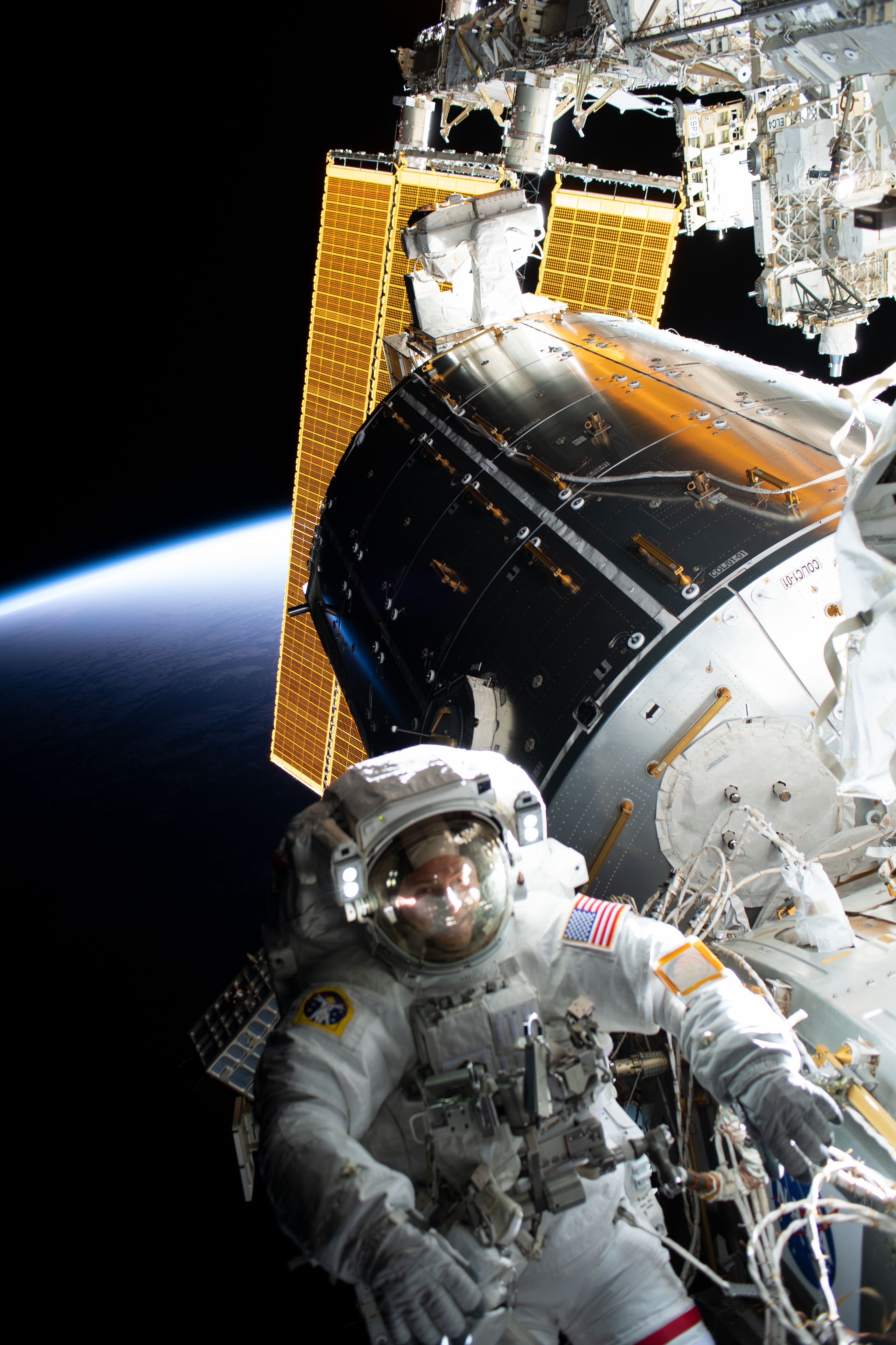 NASA astronaut Nick Hague is pictured tethered to the forward end of the International Space Station during a spacewalk to install the orbiting lab's second commercial crew vehicle docking port, the International Docking Adapter-3 (IDA-3).